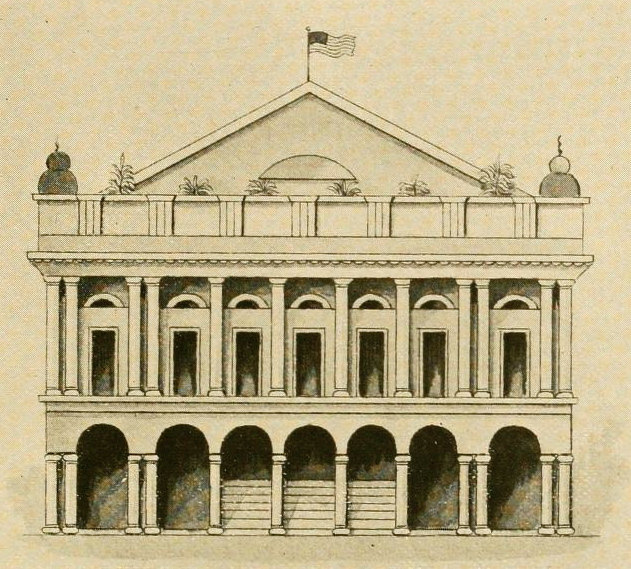 Orleans Theater, New Orleans, 1813. From an old architectural drawing in the city library. (Presumably shows first building, destroyed by fire, before the more well known building of the same name c. 1817)